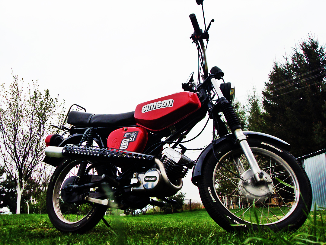 Simson S51 Enduro